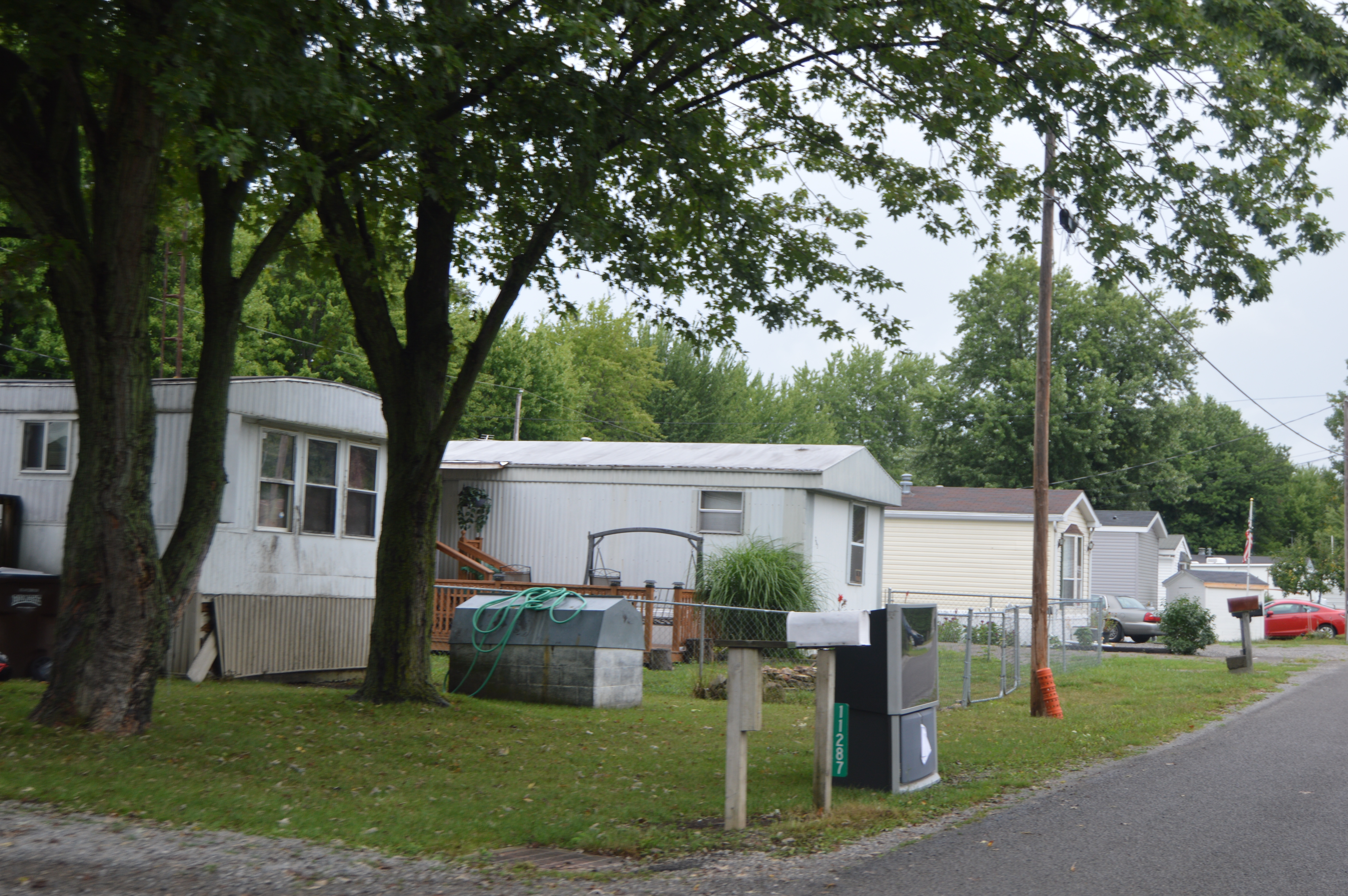 House trailers on the western side of Mohawk Path, just north of Blue Jacket Path, in Chippewa Park, Ohio, United States.